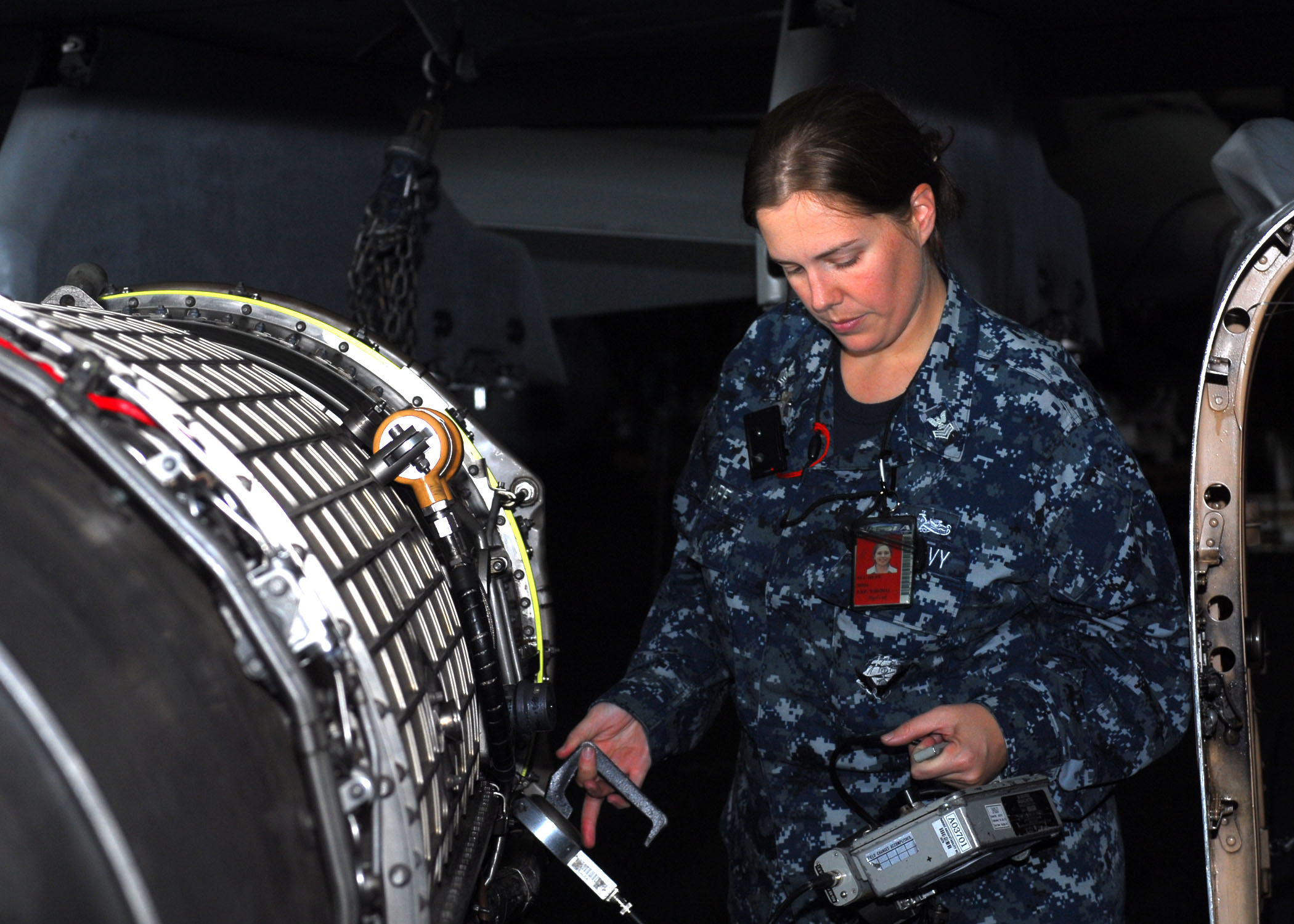 PACIFIC OCEAN (April 1, 2011) Machinist's Mate 1st Class Margaret Huff, from Valparaiso, Ind., temporarily assigned to the aircraft carrier USS Ronald Reagan (CVN 76), checks a jet engine for radiation. Ronald Reagan is off the coast of Japan to provide disaster relief and humanitarian assistance to Japan as directed in support of Operation Tomodachi. (U.S. Navy photo by Mass Communication Specialist Seaman Apprentice Michael Feddersen/Released)